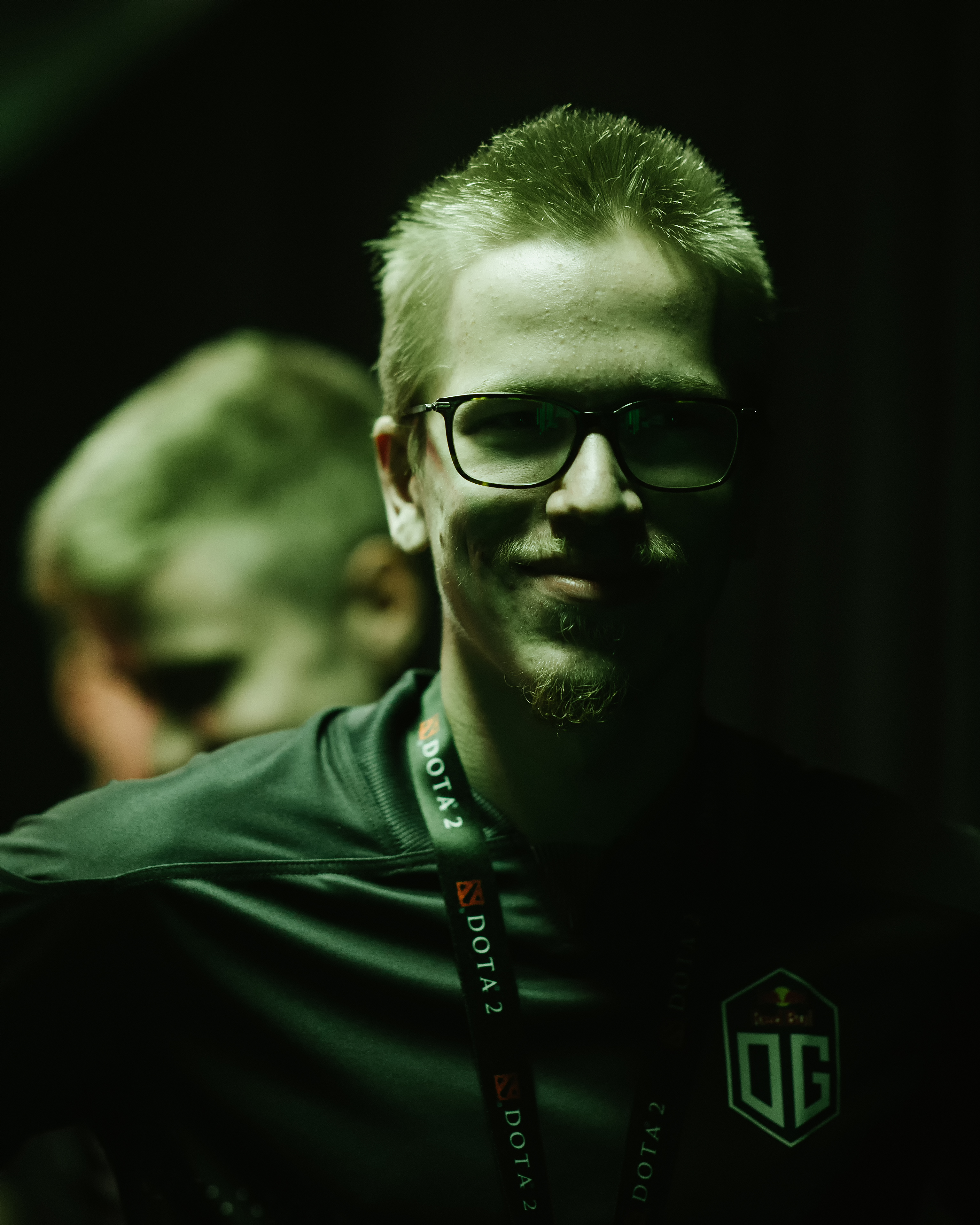 The International 2018